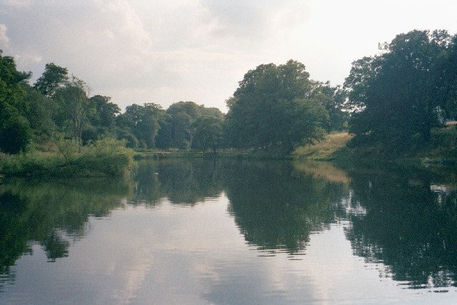 Reservoir in Cornbury Park. This reservoir is the lowest of a series in Cornbury Park, an estate near Charlbury. The image is taken from the bridge/dam at its east end. The dam for the next reservoir can be seen at the far end.